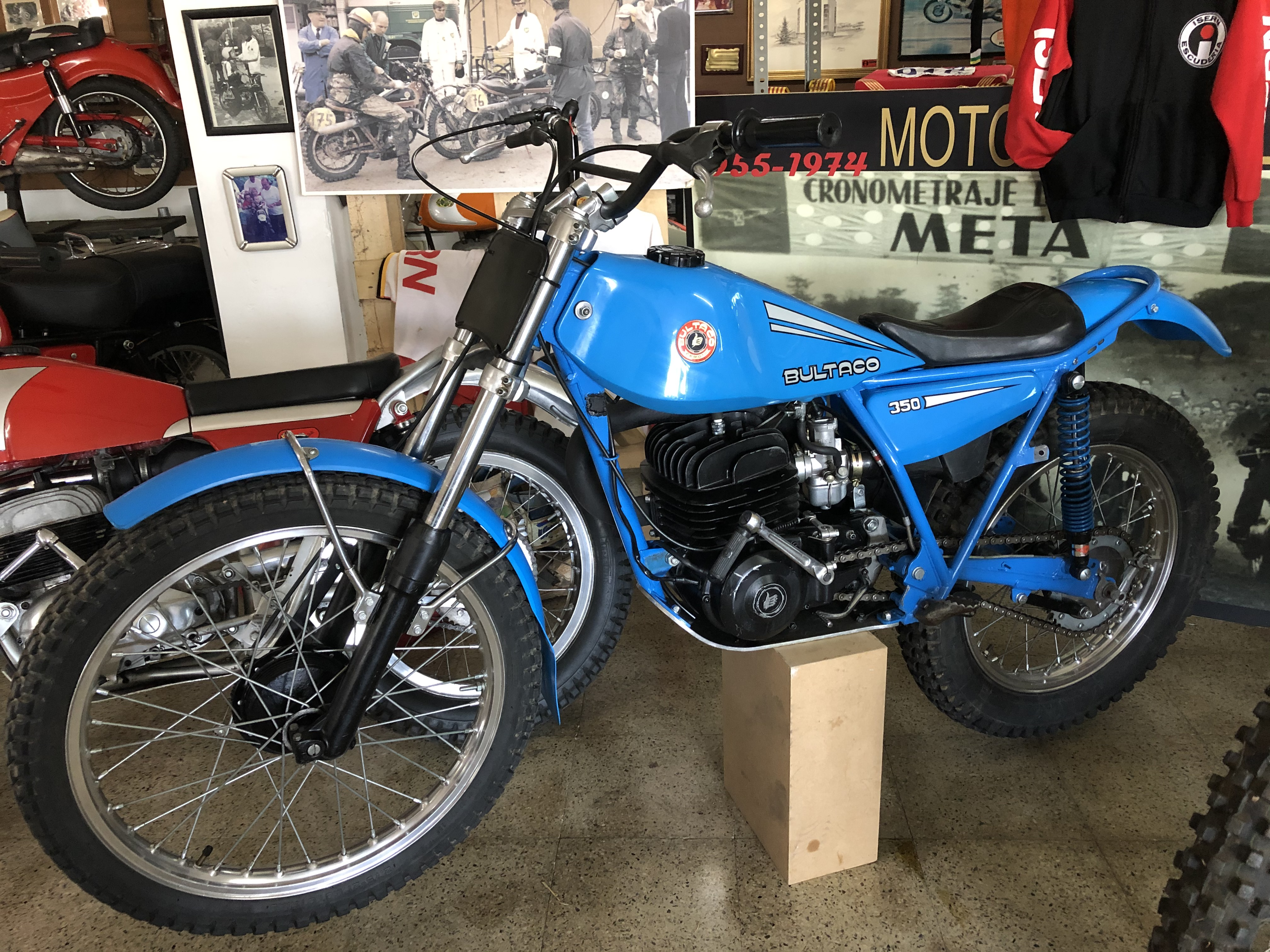 Bultaco Sherpa T 350 (326,03 cc), mod 199A, 1980